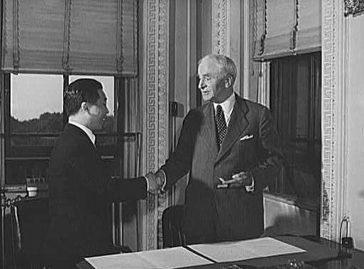 Secretary of State Cordell Hull and Chinese Ambassador Wei Tao-Ming at the State Department exchanging ratifications of the treaty abolishing extra-territorial "rights" of the United States in China. The treaty provided that it becomes effective at the time of this exchange.